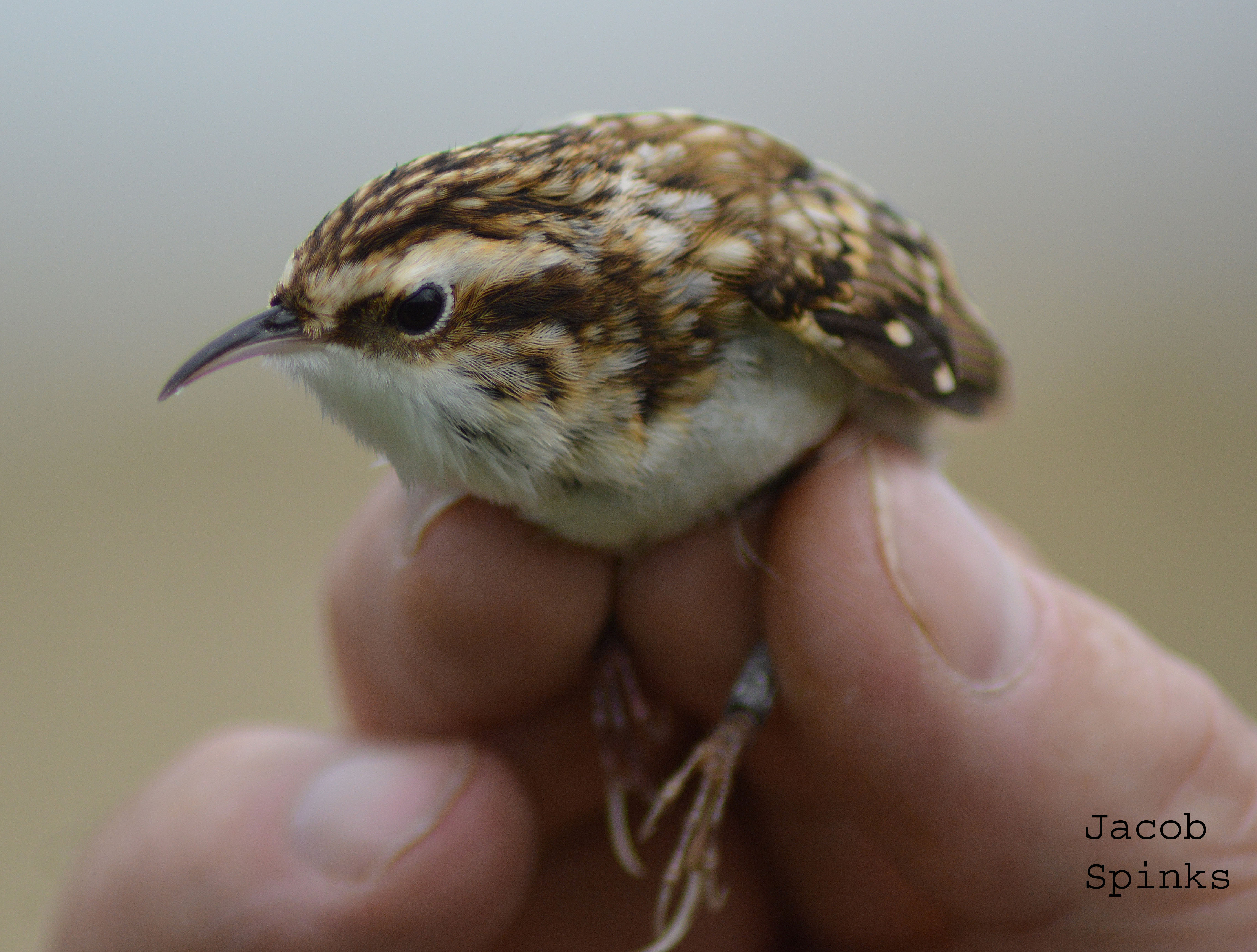 Taken at Pitsford NR. I was lucky enough to get a voulenteer place for Pitsford NR. So today, I went and did a bit of ringing if them!! WE caught LOADS including: Spotted Flycatcher Tree Sparrows Blue Tits Great Tits Tree Creeper Chiffchaffs AND MORE!! Please Visit my friends Website: Tree Creeper The treecreeper is small, very active, bird that lives in trees. It has a long, slender, downcurved bill. It is speckly brown above and mainly white below. It breeds in the UK and is resident here. Birds leave their breeding territories in autumn but most range no further than 20 km. Its population is mainly stable. Status: Green Population: UK Breeding: 214,000 territories